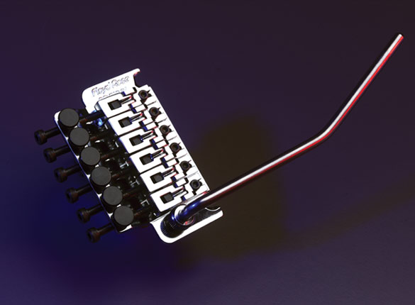 Floyd Rose Original Source: Floyd Rose Guitars According to Adam Reiver at Floyd Rose Guitars, these images are public domain.